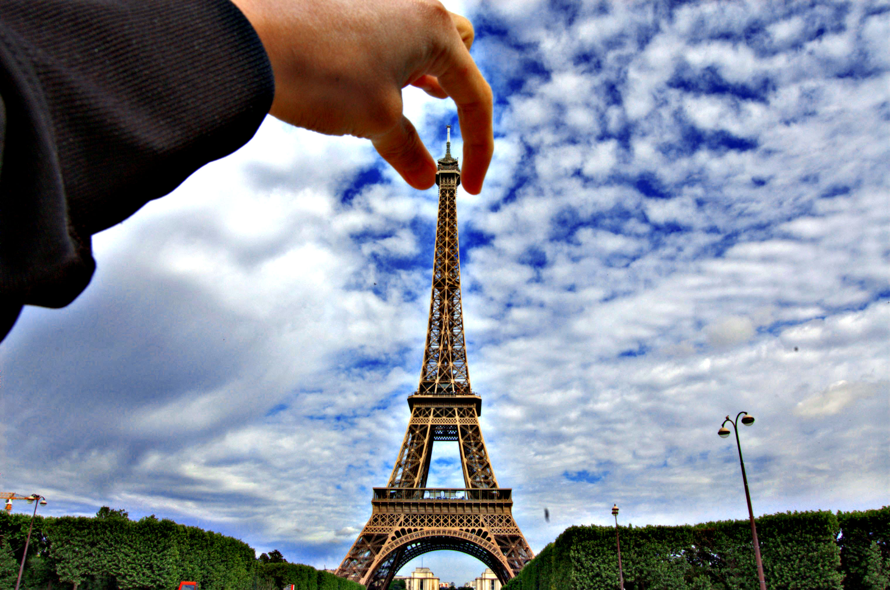 The one shot that everyone who visits the tower has to have